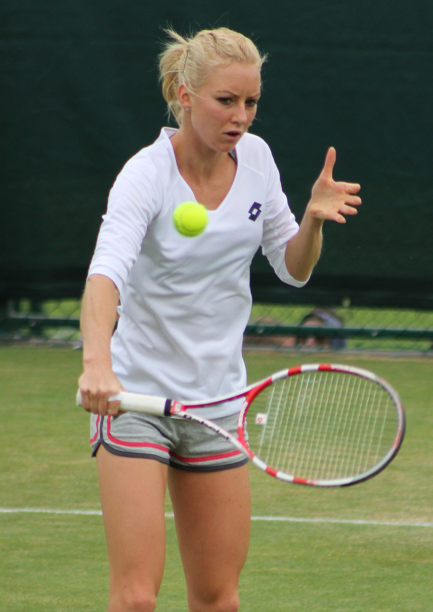 Radwanska volleying at the 2013 Wimbledon Championships.